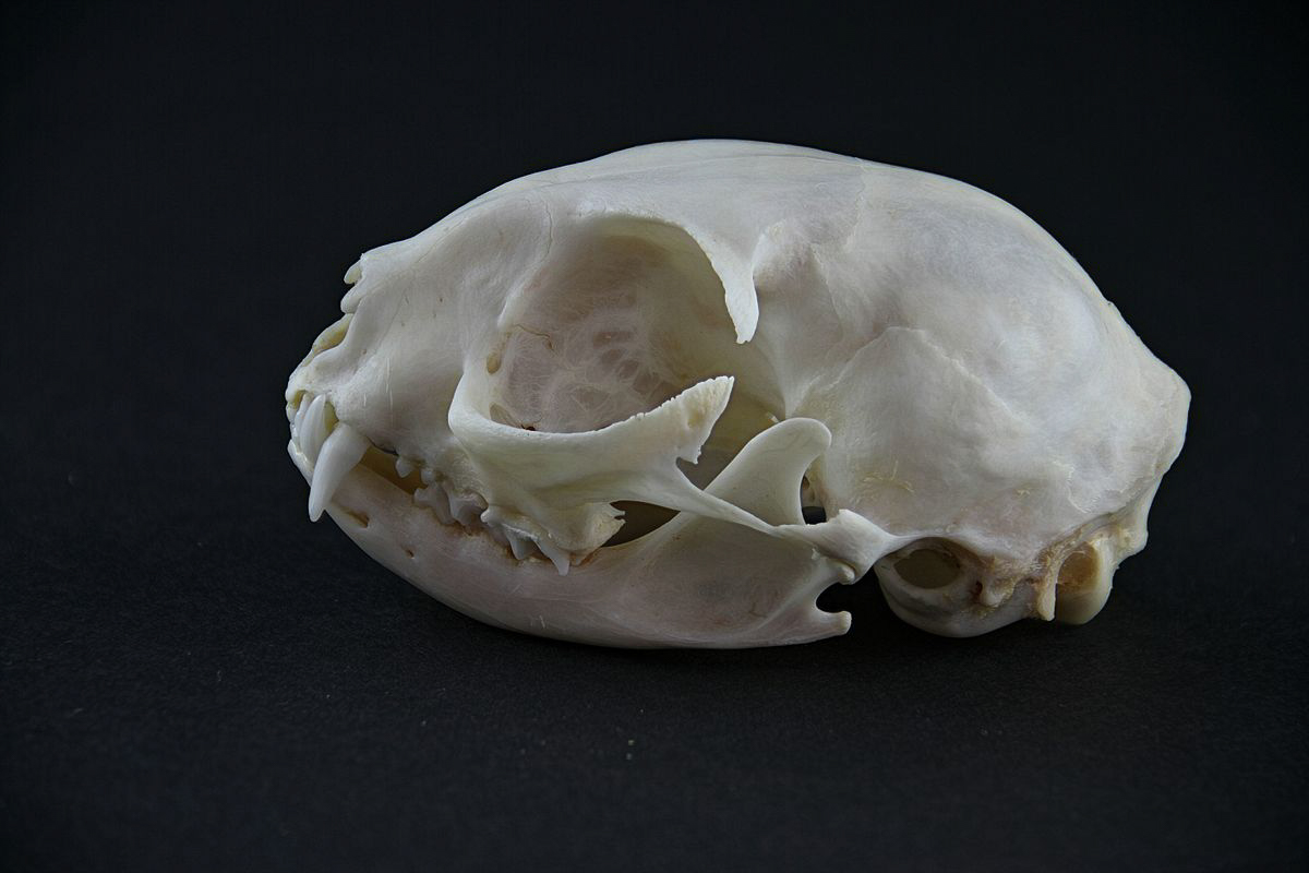 Cranium of a Felis silvestris catus (European wildcat), lateral view.